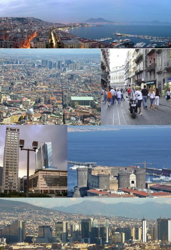 A montage of Naples, Italy.